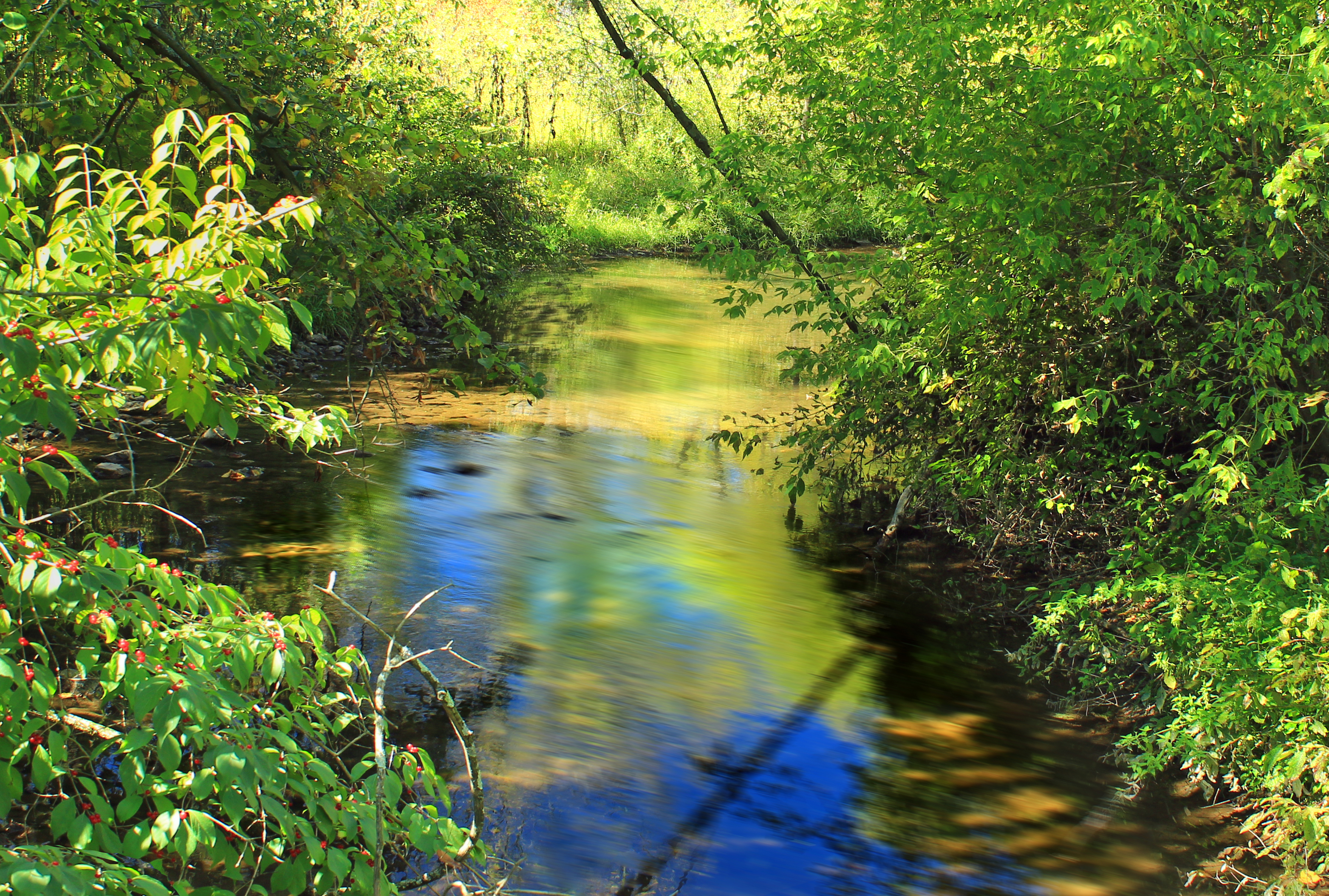 Spring Creek, a major tributary of White Deer Hole Creek, at the Lycoming County/Union County line.